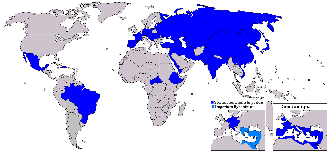 map of world empires (as china empire)